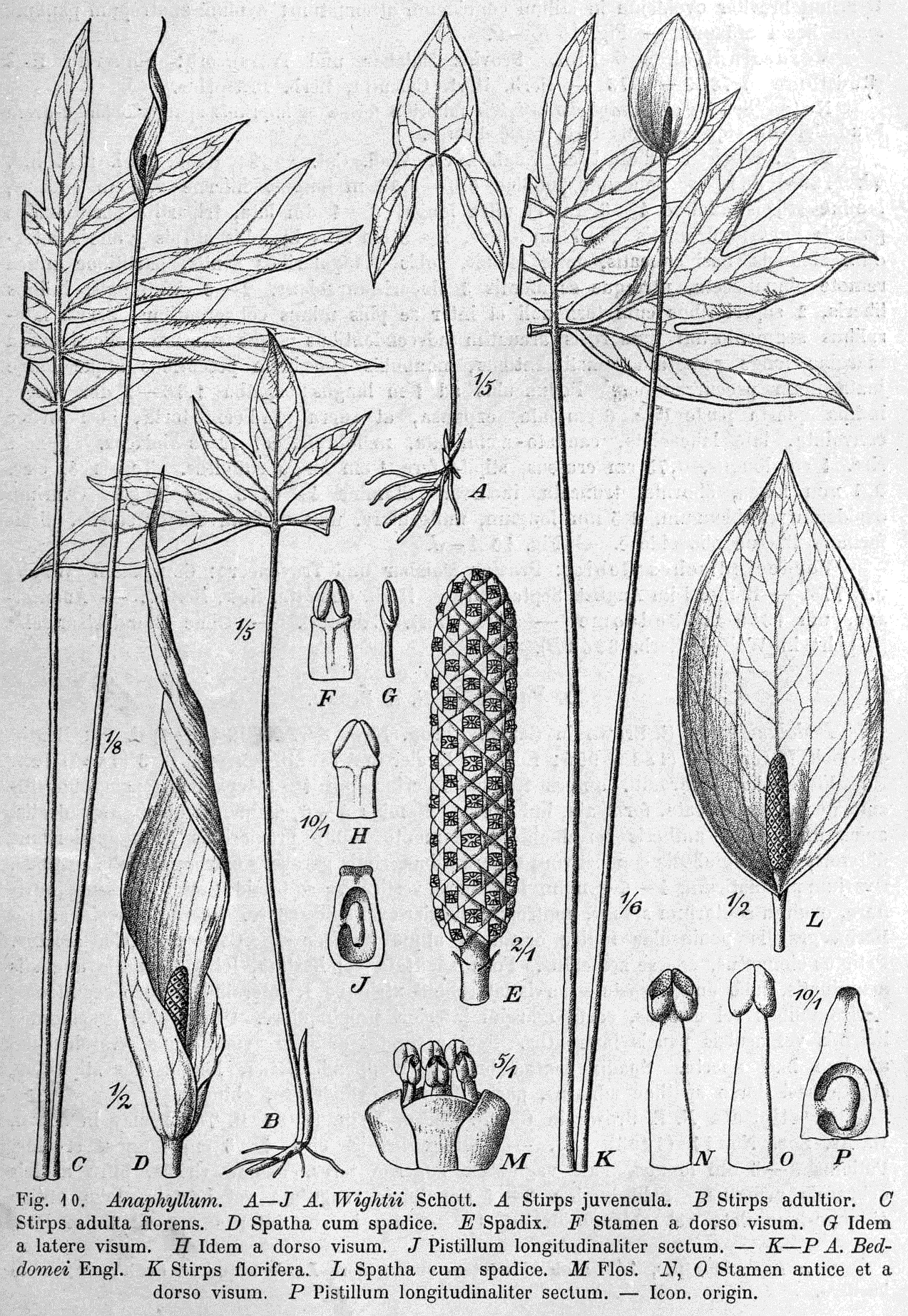 Both species of Anaphyllum